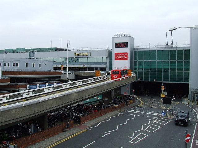 Heathrow Terminal 1. Viewed from the footbridge near Queens Building 581458.